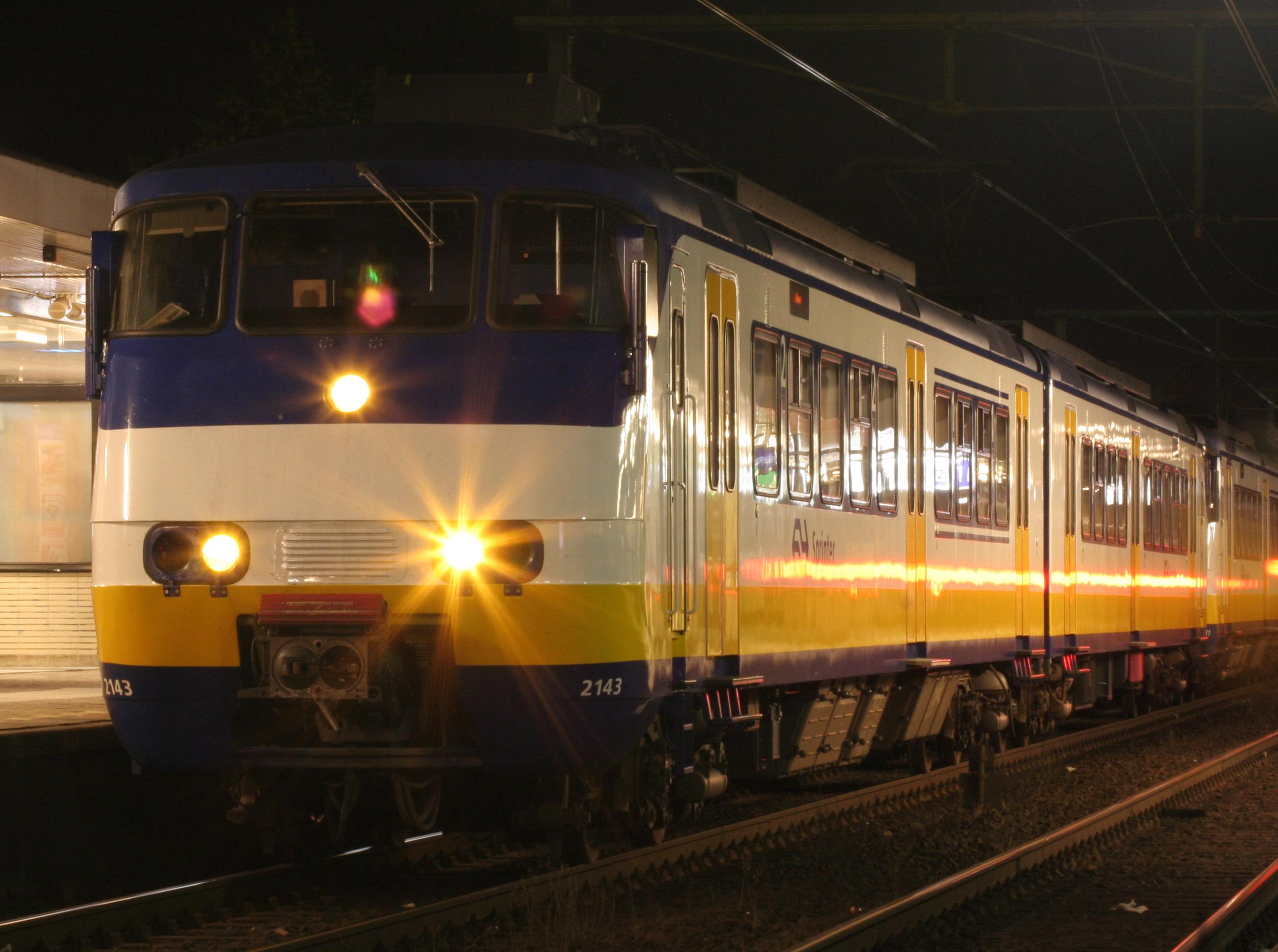 Drieberge